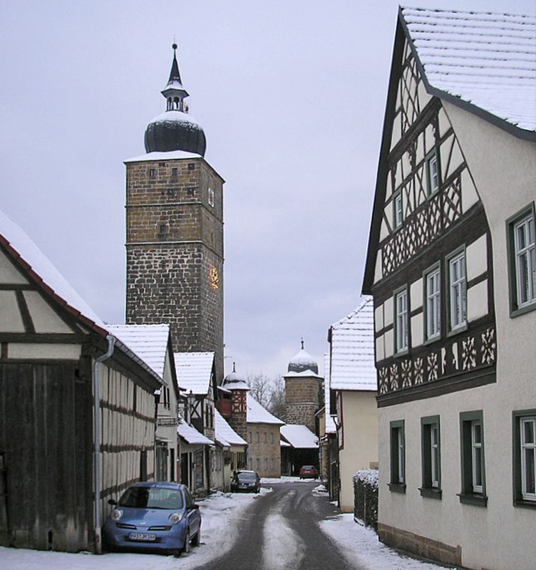 Ebern (Landkreis Haßberge, Lower Franconia, Germany). "Grauturm" ("Grey tower") gate and "Gänseturm" ("Goose tower") of the city walls